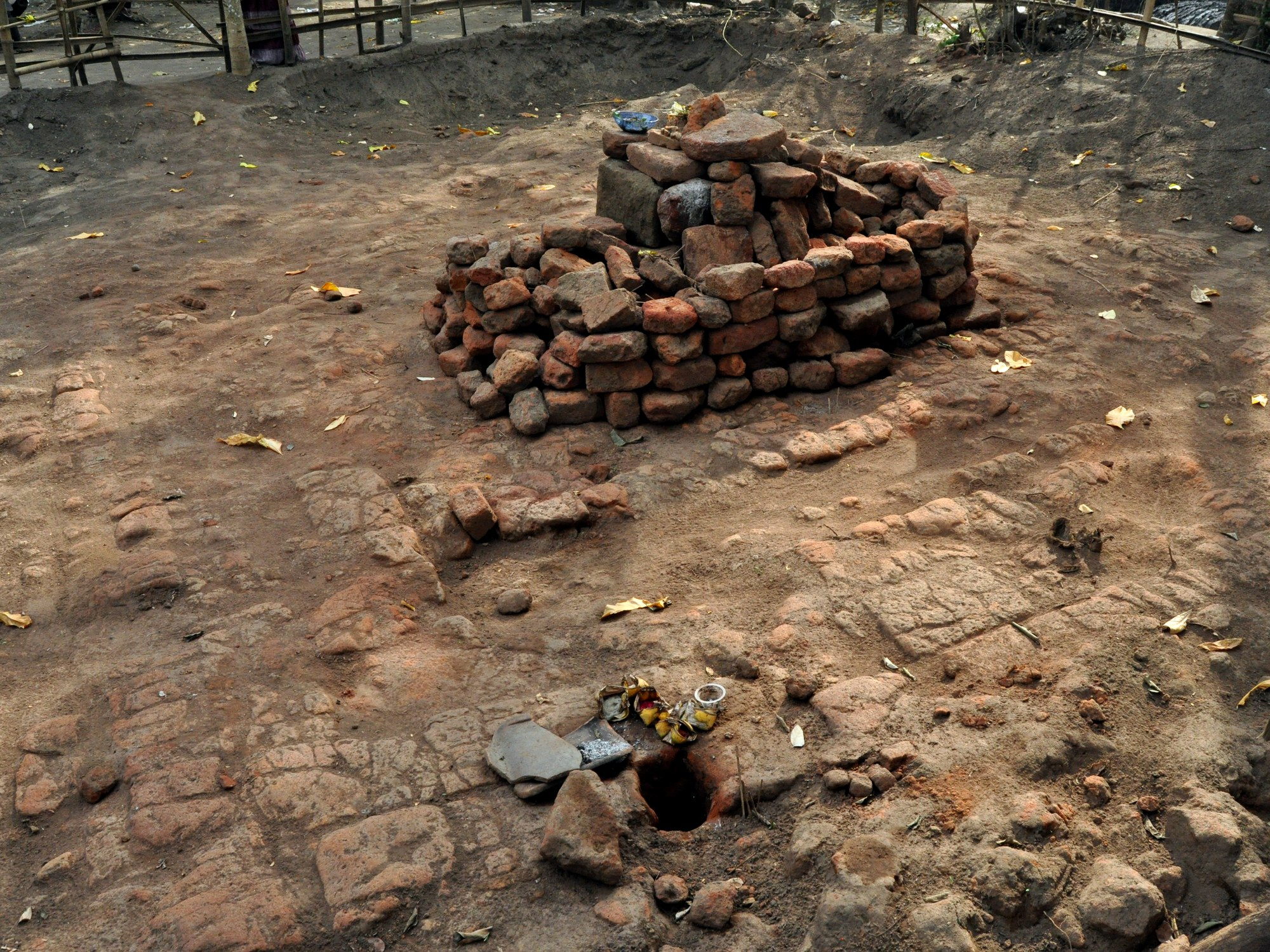 Ruins of Kunir Temple, Kunir, Lumajang, East Java, Indonesia.